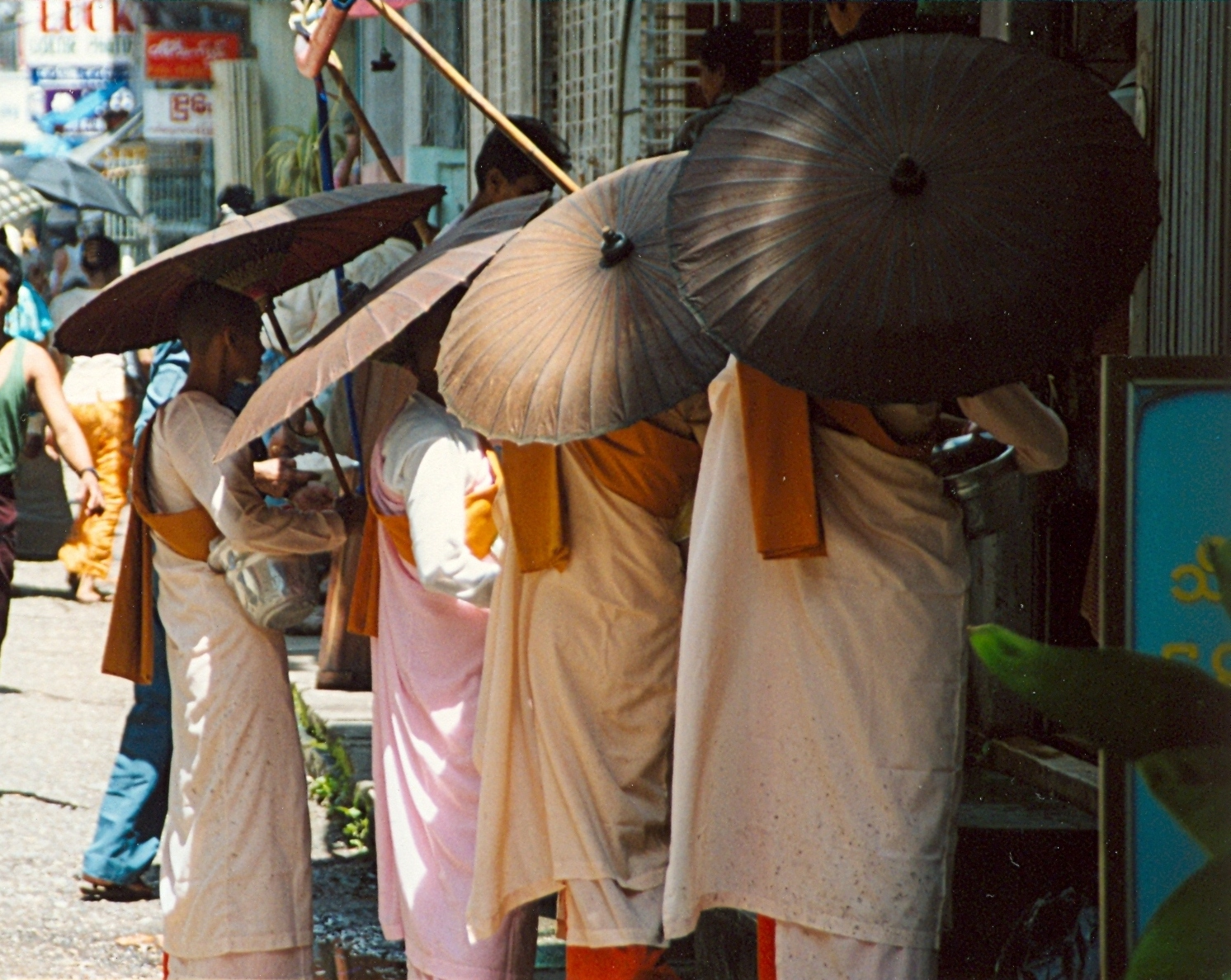 Buddhist nuns in Rangoon, Burma.